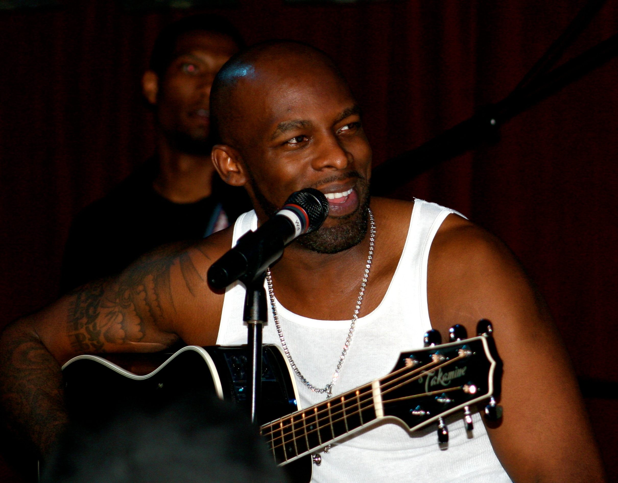 Joe playing guitar during his show at B.B. Kings in NY.